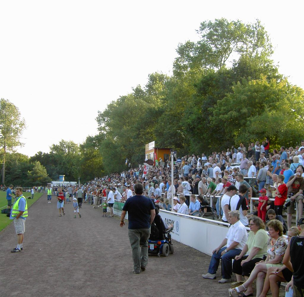 Stadium "Sander Tannen" - homeground of ASV Bergedorf 85 in Hamburg, Germany. View of the main bridge. Photo taken by Mghamburg during the local cup match ASV Bergedorf 85 vs. FC St. Pauli, 21st July 2006 (Attendance: 1.773).